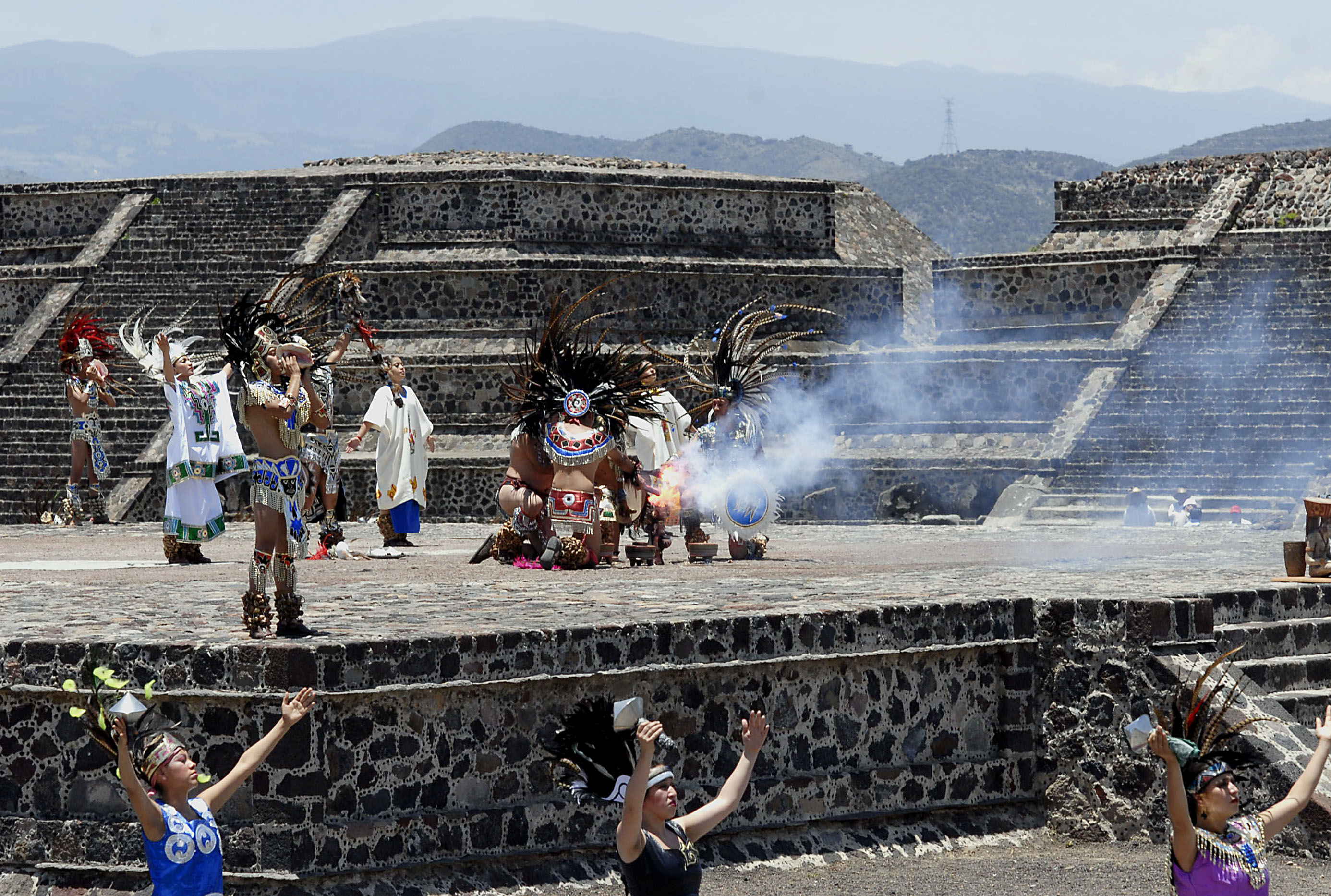 The Pan American flame is lit in Teotihuacan, México for the 2007 Pan American Games in Rio de Janeiro, Brazil.